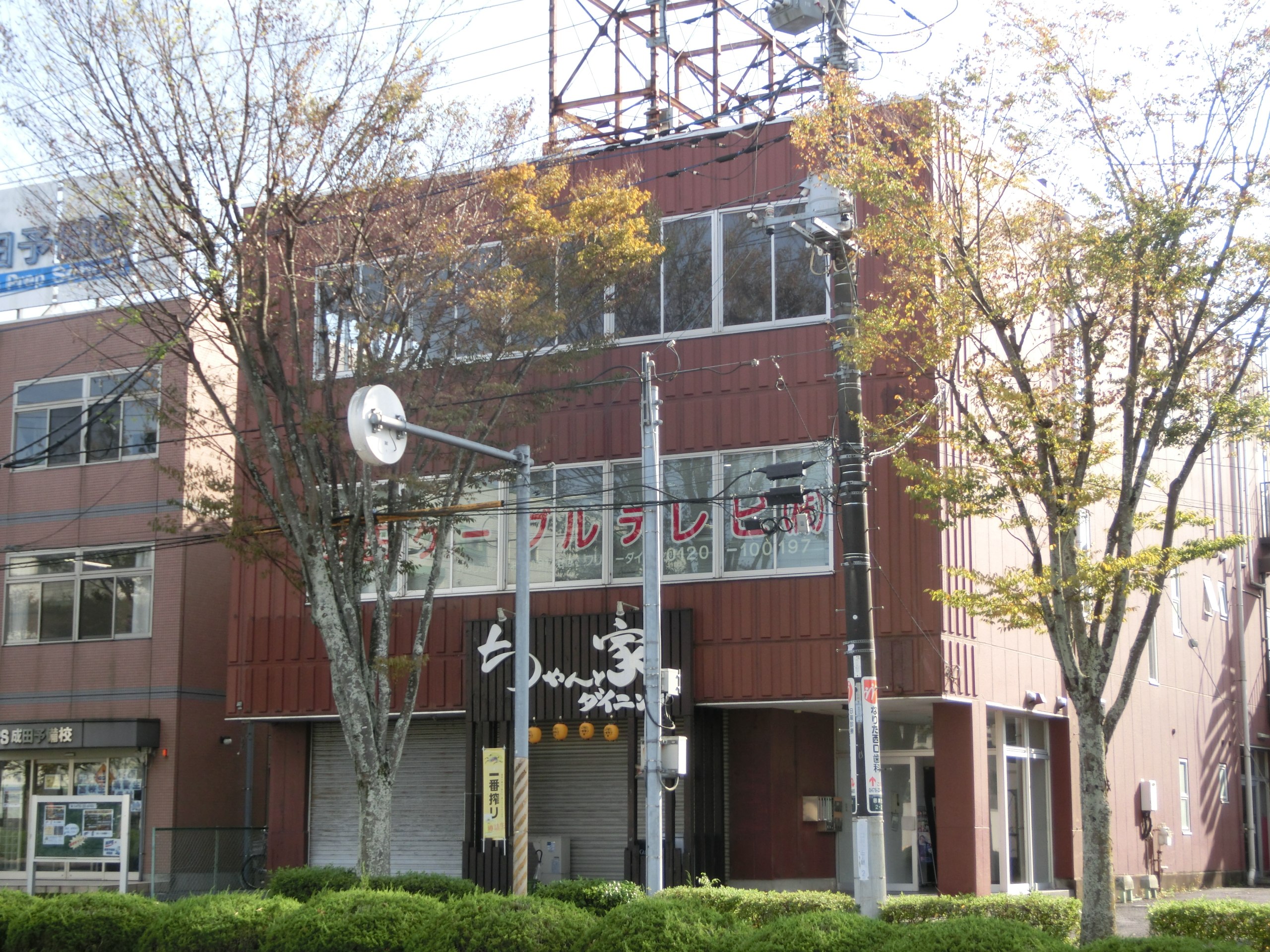 Narita Cable Television Head Office